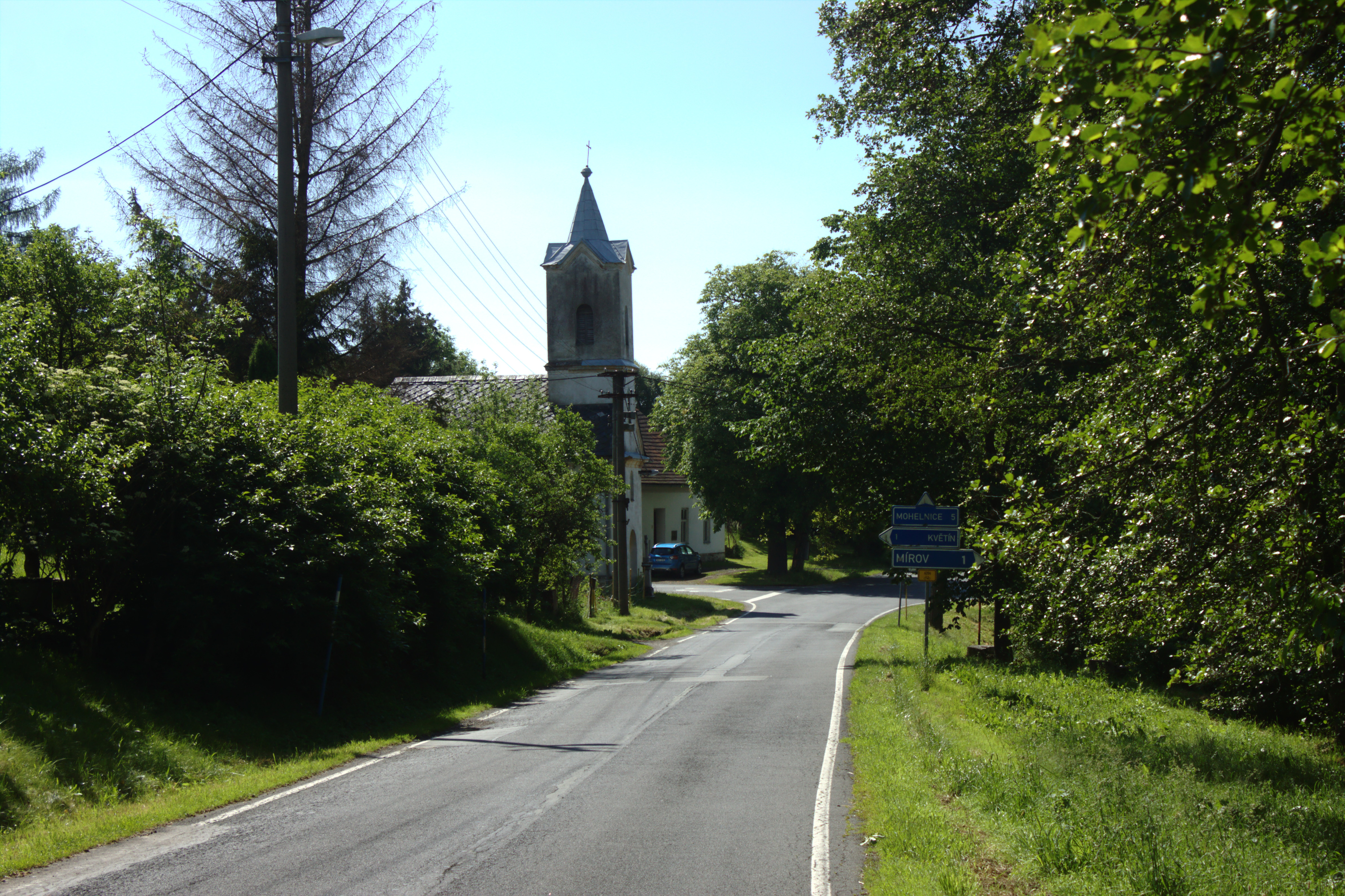 Main road in the village of Řepová, Olomouc Region, CZ